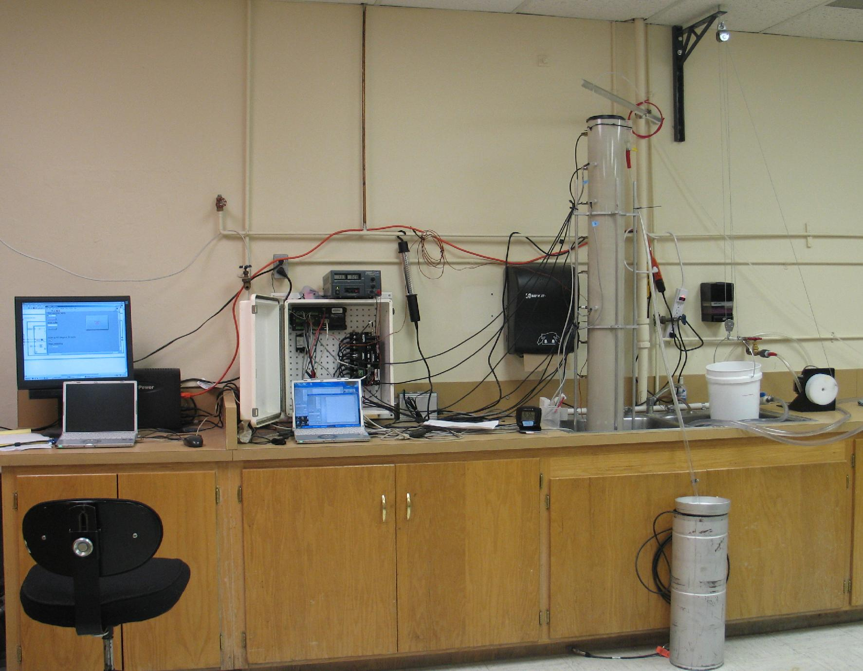 Photograph taken March 31, 2014, in the engineering hydrology and instrumentation laboratory at the University of Wyoming, showing the column experiment that was patterned after the famous experiment by Childs and Poulovasillis (1962). The column experiment collected data that were used to validate the ability of the SMVE advection-like term to simulate capillary groundwater dynamics in response to a moving water table. Data are available at: org/content/map.